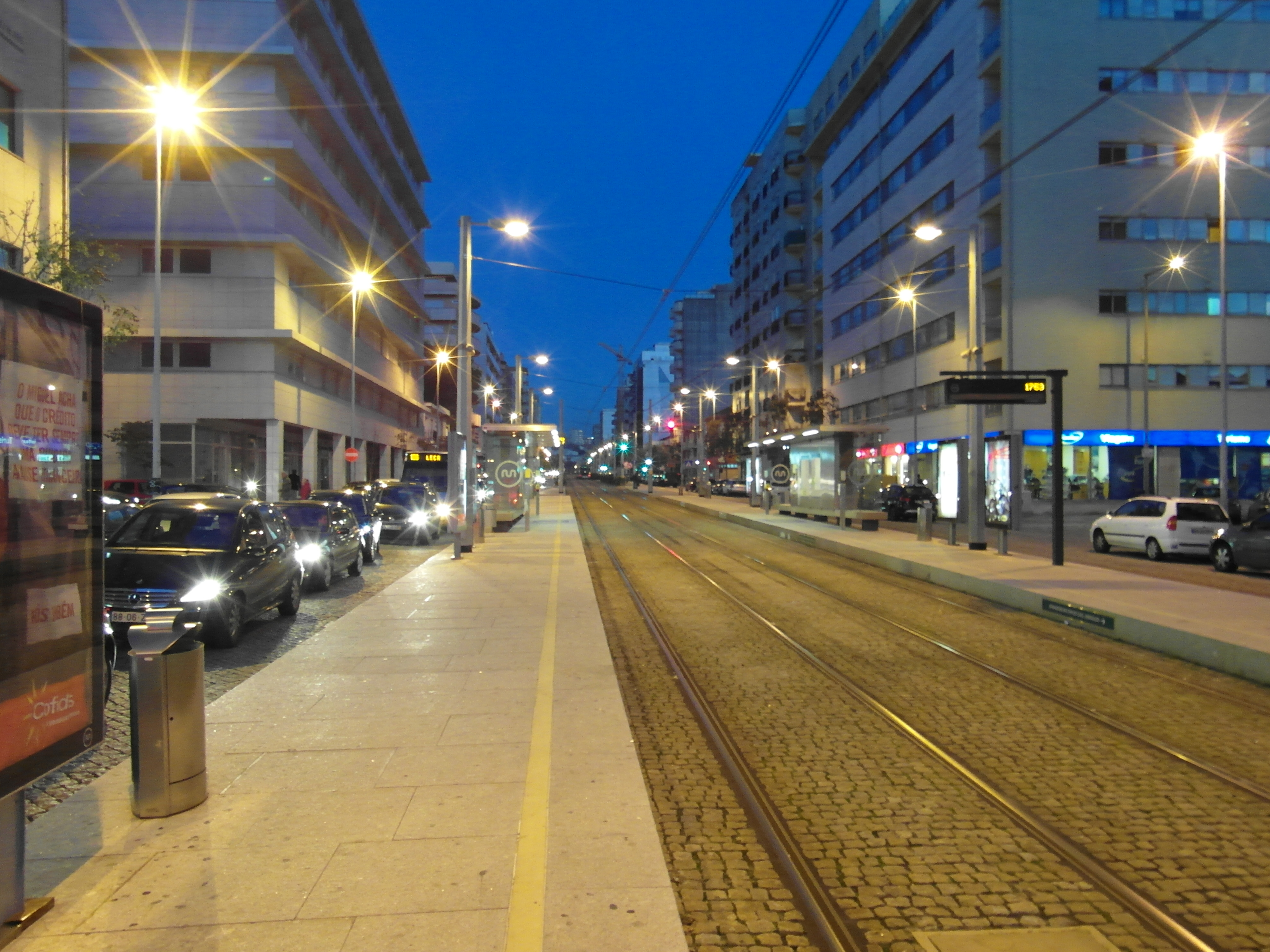 Stadtbahn Porto - Oporto light rail